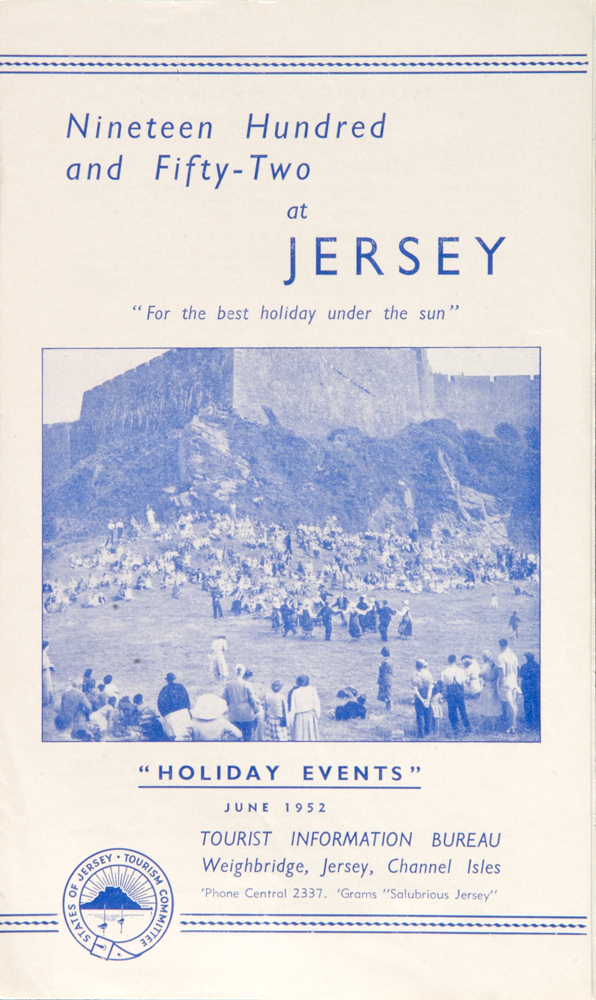 1952 Jersey tourism holiday events brochure. Jersey Tourism, the tourism agency of the States of Jersey, has placed a selection from its advertising archive online at Flickr under CC licences : It further states there: "Jersey Tourism is part of the States of Jersey. These images are provided freely, without copyright restrictions and no royalties are payable."